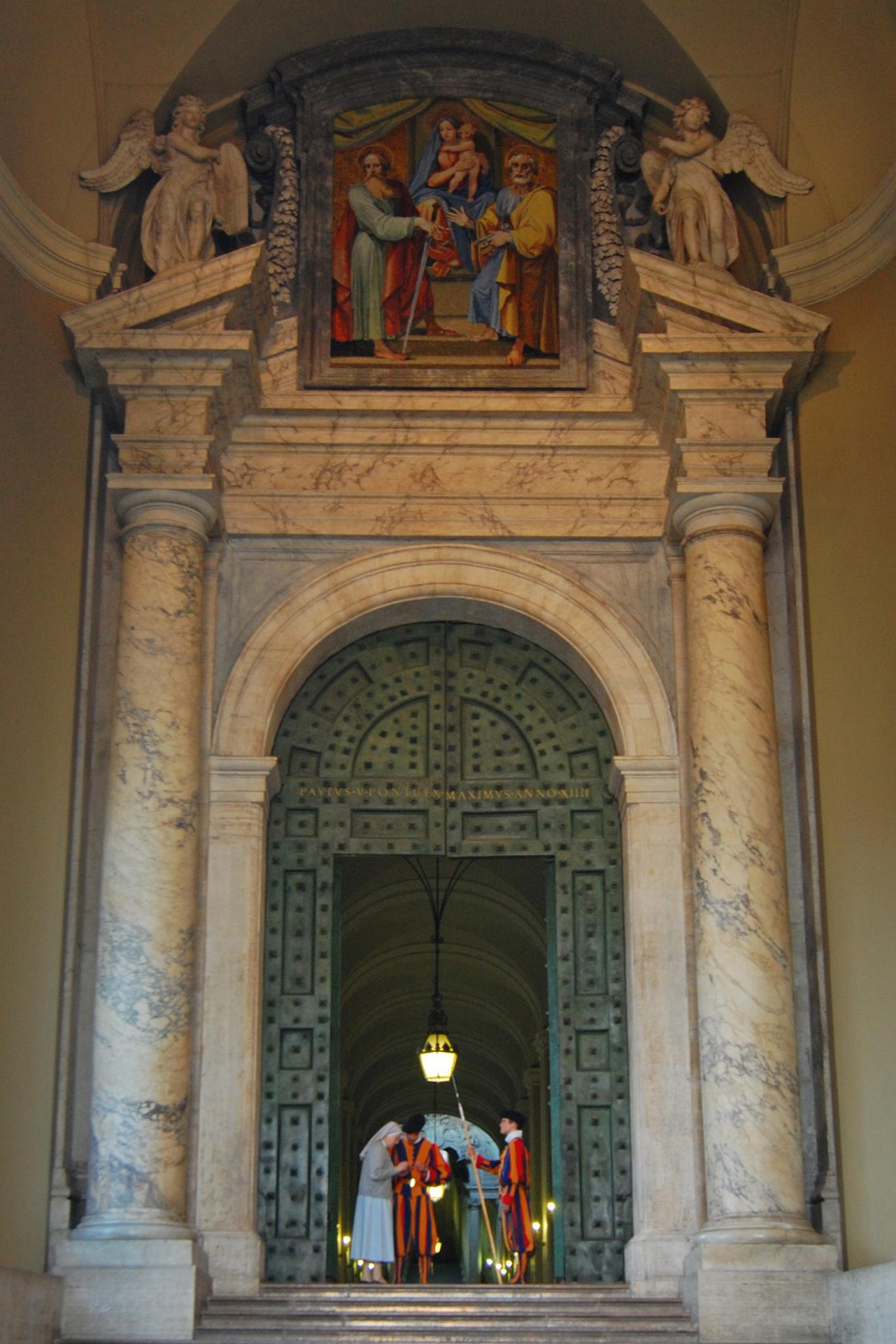 Bronze door - on of the entrances to the Apostolic Palace.